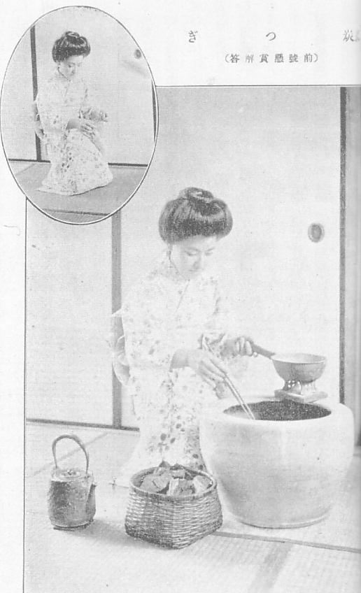 a girl adding charcoal to the hibachi.（In Japan, this act is called 「炭つぎ」（Sumitsugi））